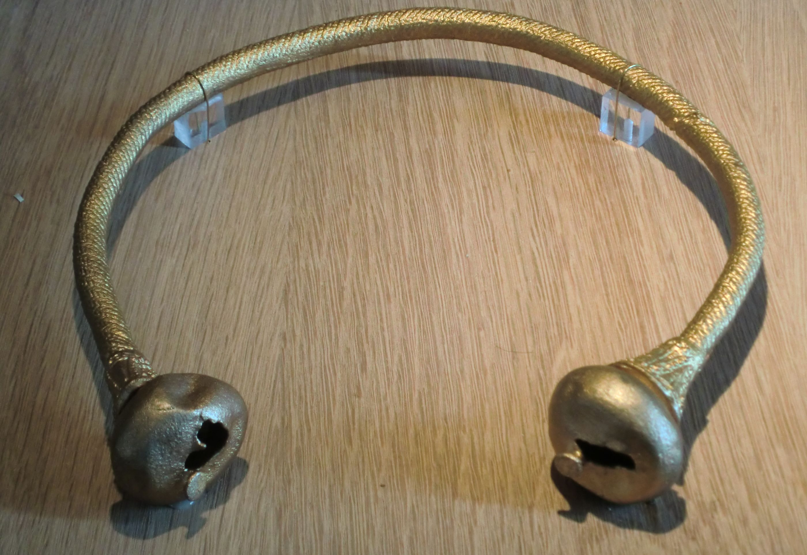 Copy of goldring from around 100 A.D. found at Vittene, near Trollhättan, Sweden. The copy is made by 3D-scan and printed in Rapid Prototyping. On display at Lödöse Museum.